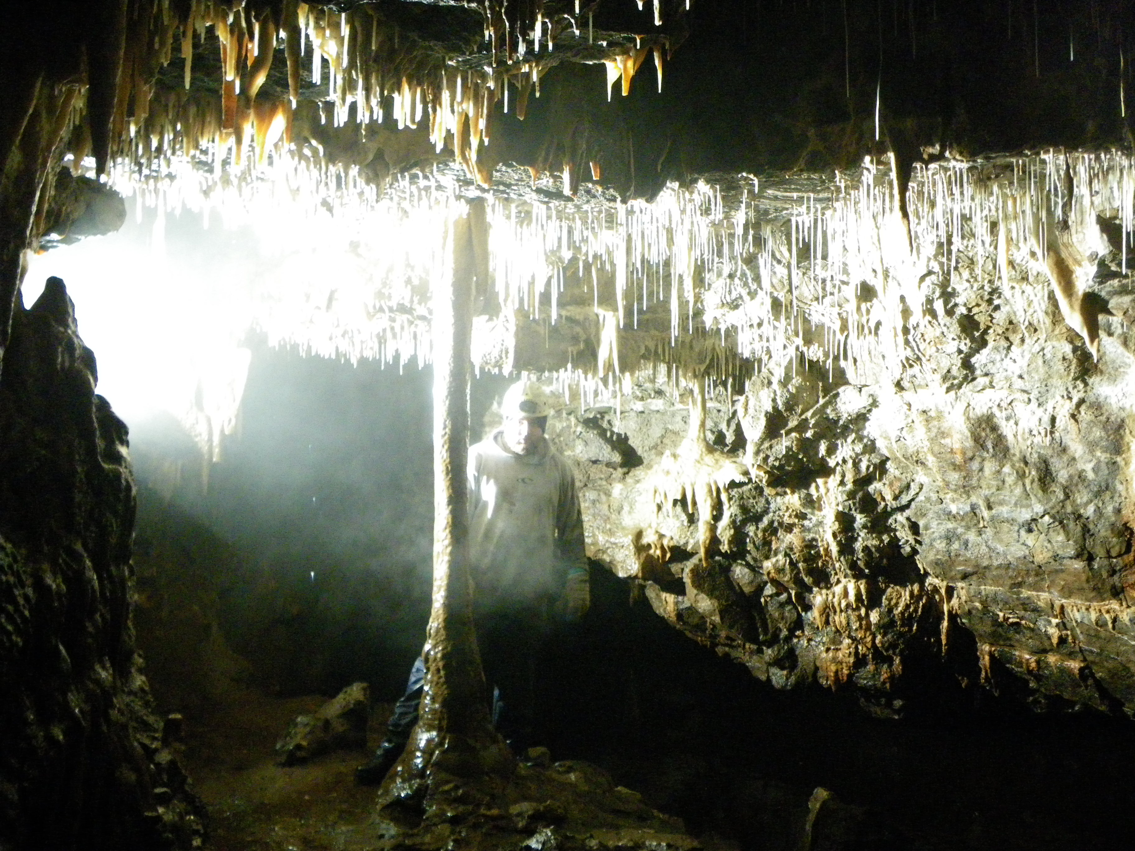 A caver standing beside the column in Crackpot Cave